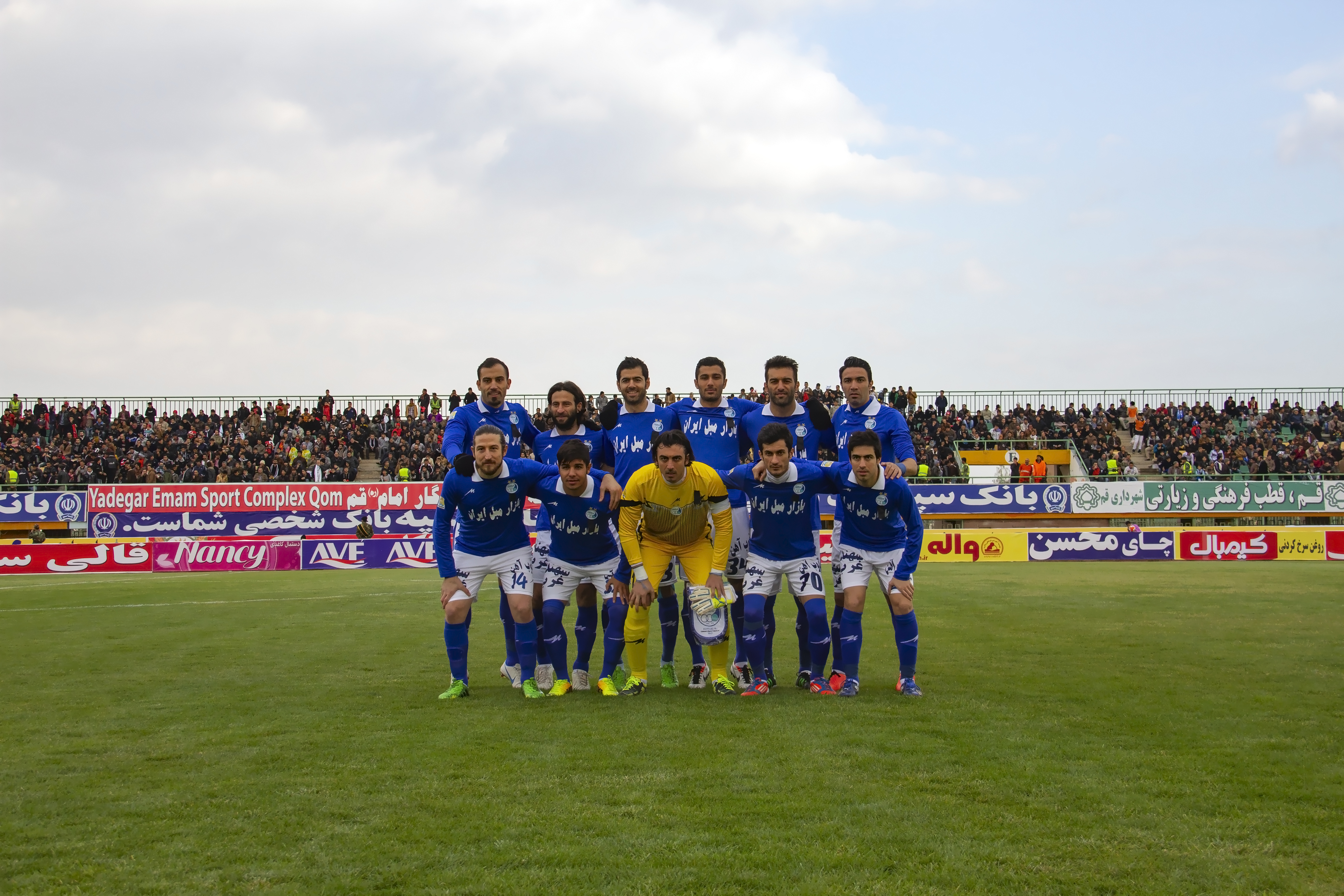 Esteghlal Football Club until 1979 known as Taj Football Club (Persian: تاج, meaning Crown) is an Iranian professional football club based in Tehran that plays in the Persian Gulf Pro League. Esteghlal F.C. is the football club of the multisport Esteghlal Athletic and Cultural Club